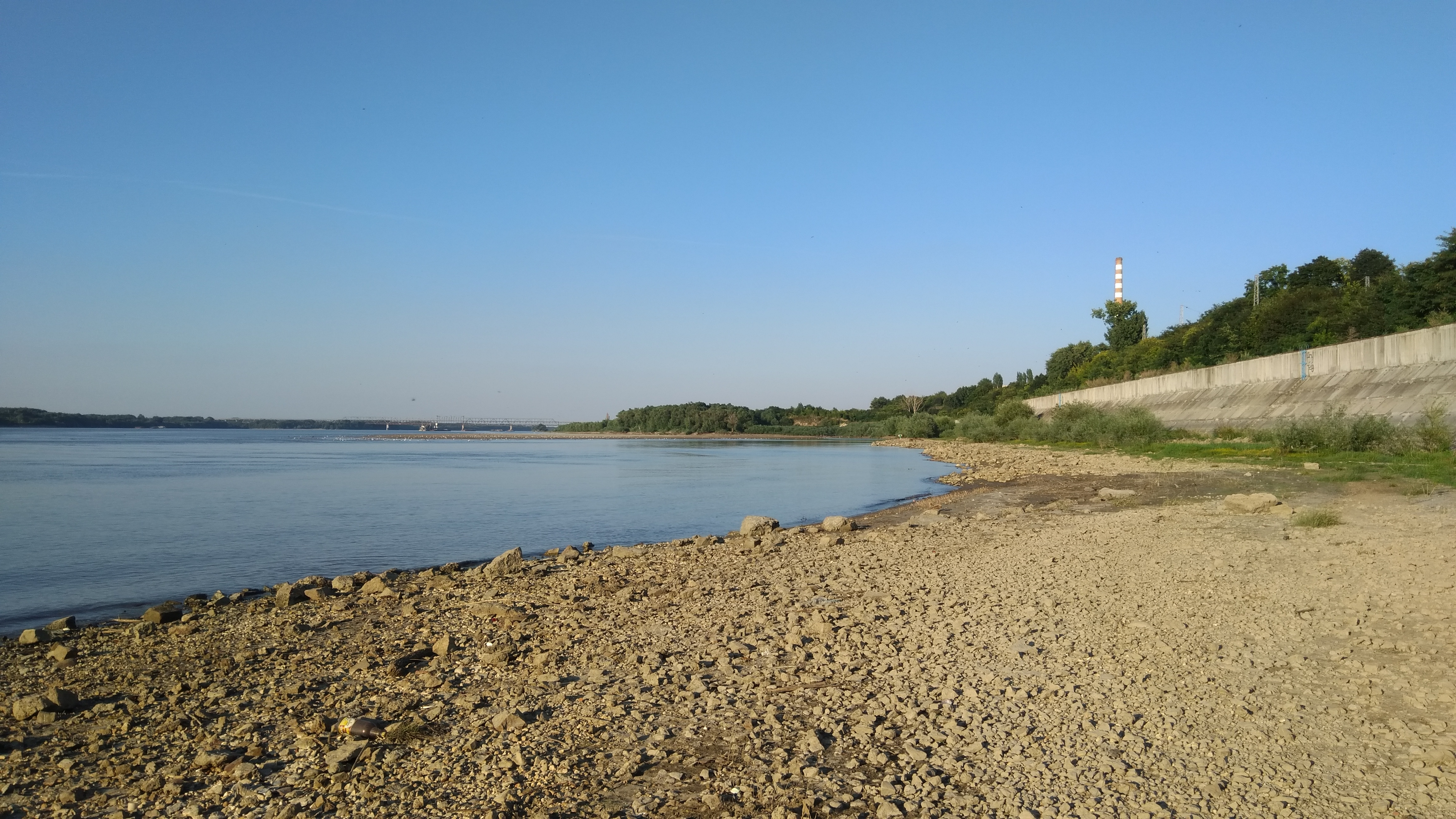 Danube in Ruse, Bulgaria